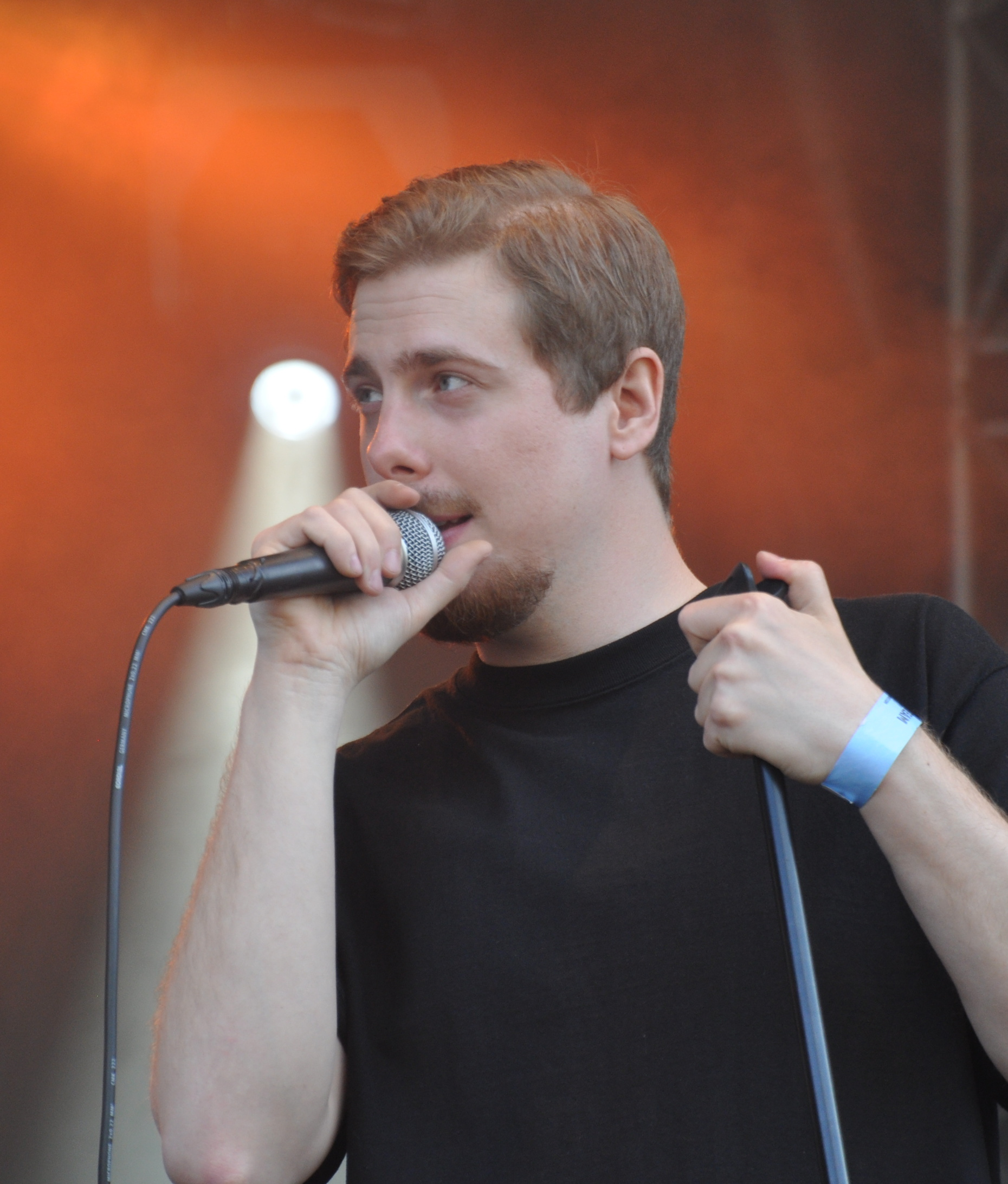 Finnish rapper DJ Kridlokk performing at Sideways Festival in Helsinki, Finland, 2015.